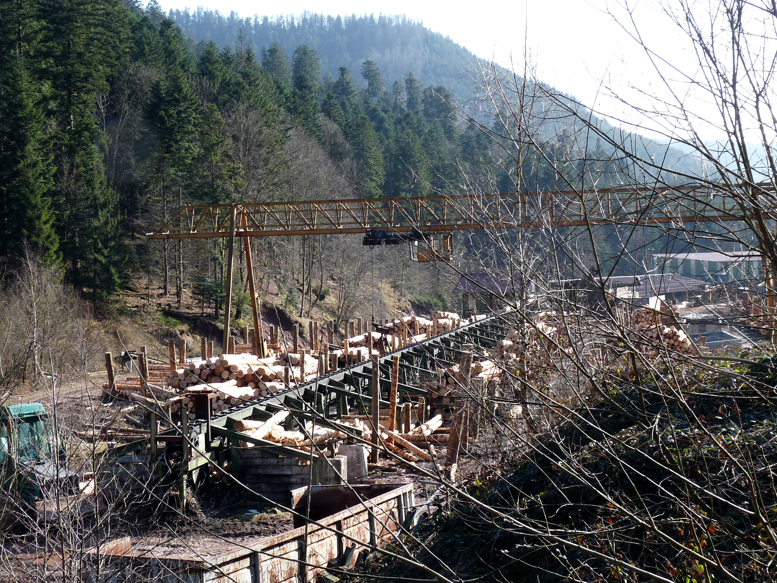 Sawmill in Moussey (Vosges)